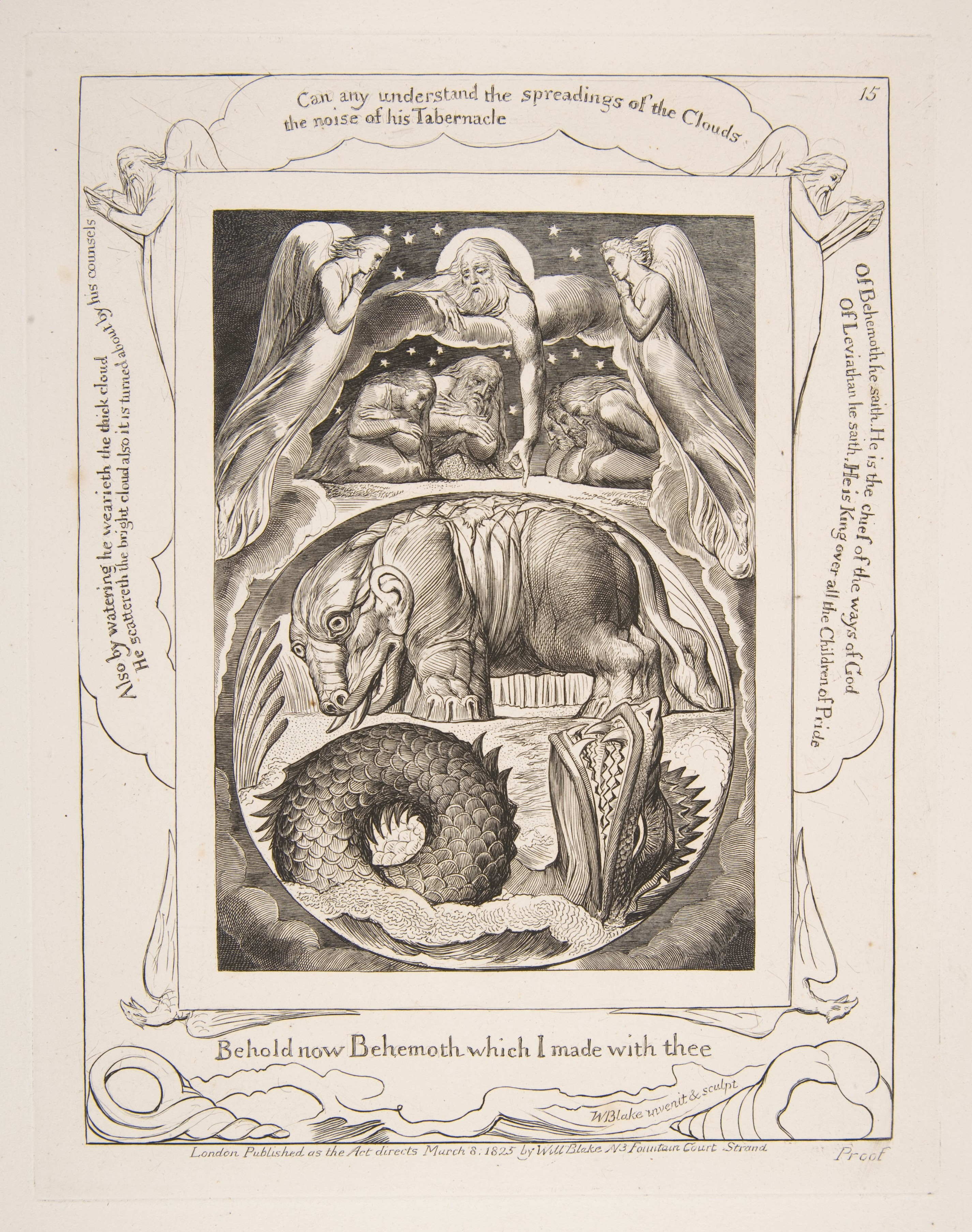 Print; Prints